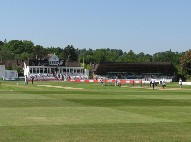 Tunbridge Wells: the Nevill GroundThe pavilion was burnt down in 1913 by militant suffragettes but quickly rebuilt. The stand to its left is more recent. Players practise ahead of the first (very hot) day of the Kent-Notts match.